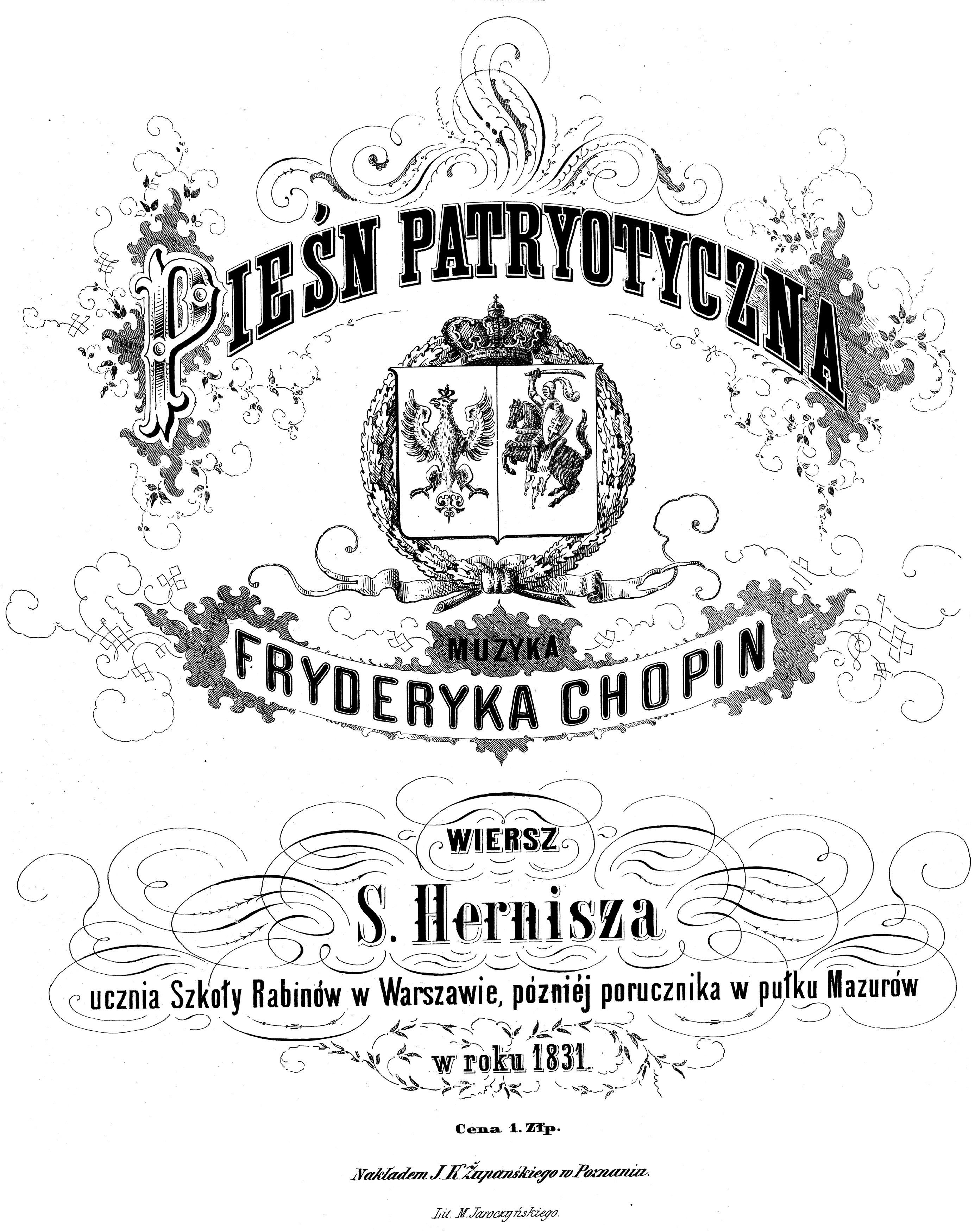 Polish patriotic song, written by a pupil of Warsaw Rabbinical School, Lieutenant of Polish insurgent troops 1831